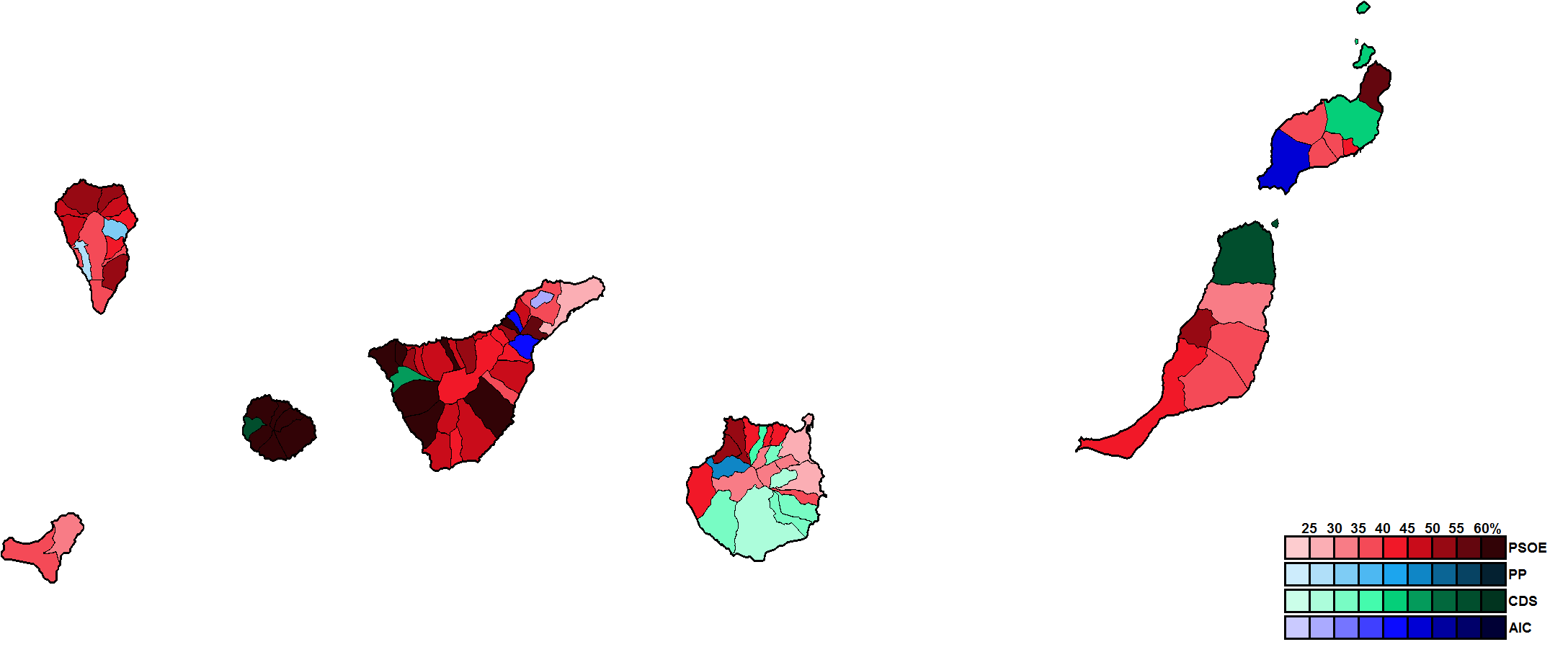 Most-voted party in Canary Islands municipalities, showing vote share obtained, in the Spanish general election, 1989.